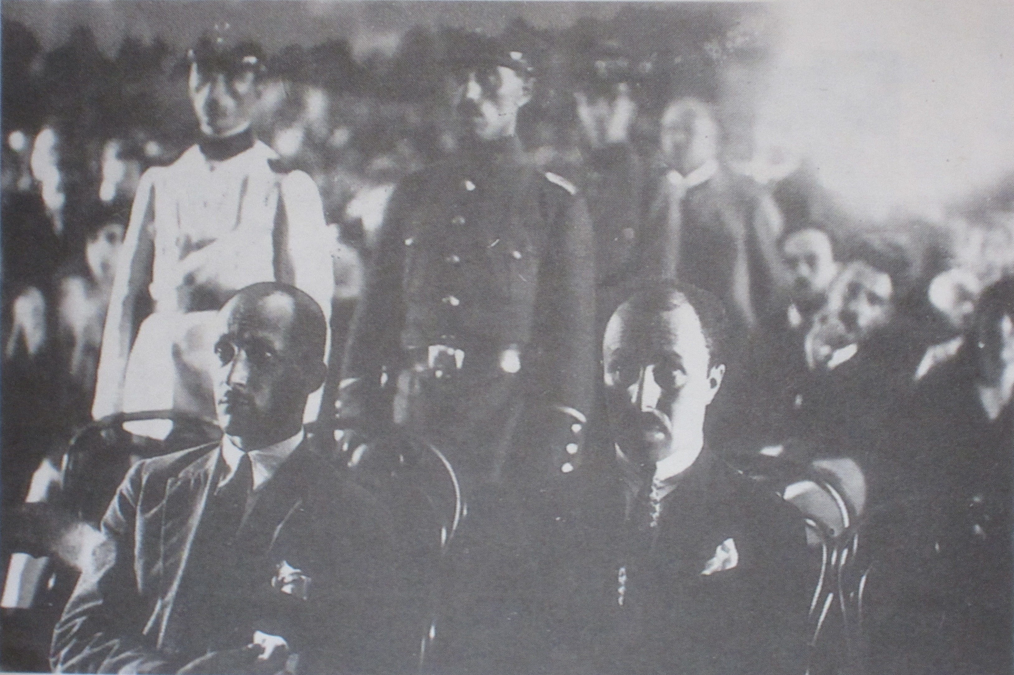 Yusuf and Ismail at the trial